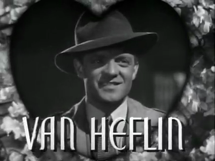 Van Heflin in the trailer for the film Seven Sweethearts (1942), directed by Frank Borzage